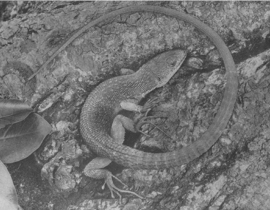 Male of Gastropholis tropidopholis